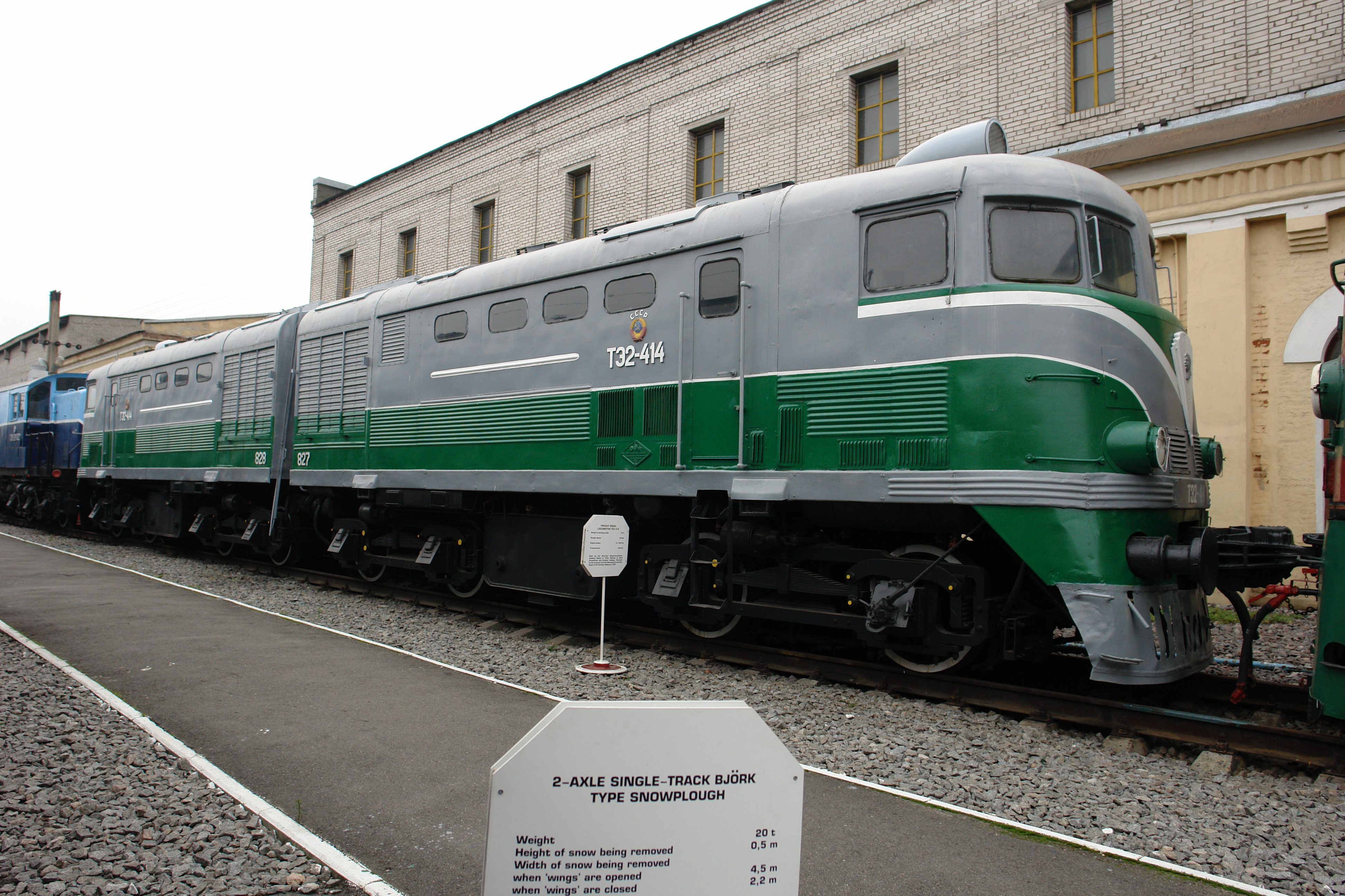 Freight diesel locomotive TE2-414 Weight in working order170 t.Design speed93 kphEngine power2x1000 hpTransmissionelectric Built by the Khar'kov Diesel-locomotive-building Works in 1954. Worked on West Kazakhstan and October railways. Received by the museum from the Murmansk locomotive depot of the October Railway in 1990.